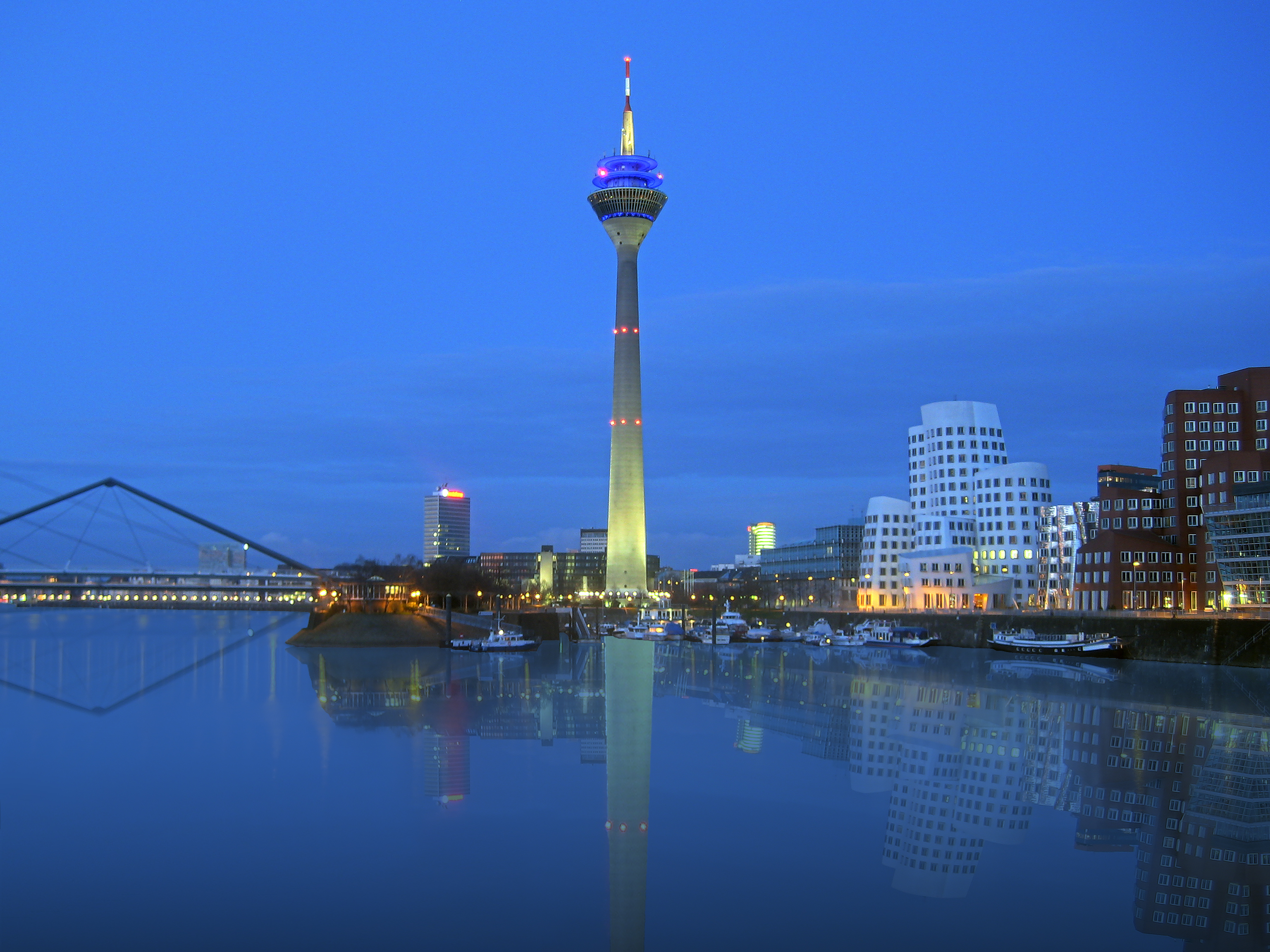 View of the Rheinturm, Düsseldorf, from the Medienhafen bridge